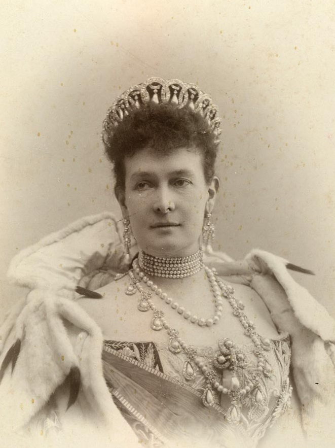 Portrait of Maria Pavlovna of Russia (1854-1920) This photo of Grand Duchess Maria Pavlovna the Elder of Russia was listed as public domain on the Catalan Wikipedia Web site. Because of the age of the photo I think it probably is public domain in the United States, as the grand duchess died in 1920. This photo dates to about 1895. Please delete it if I am mistaken.